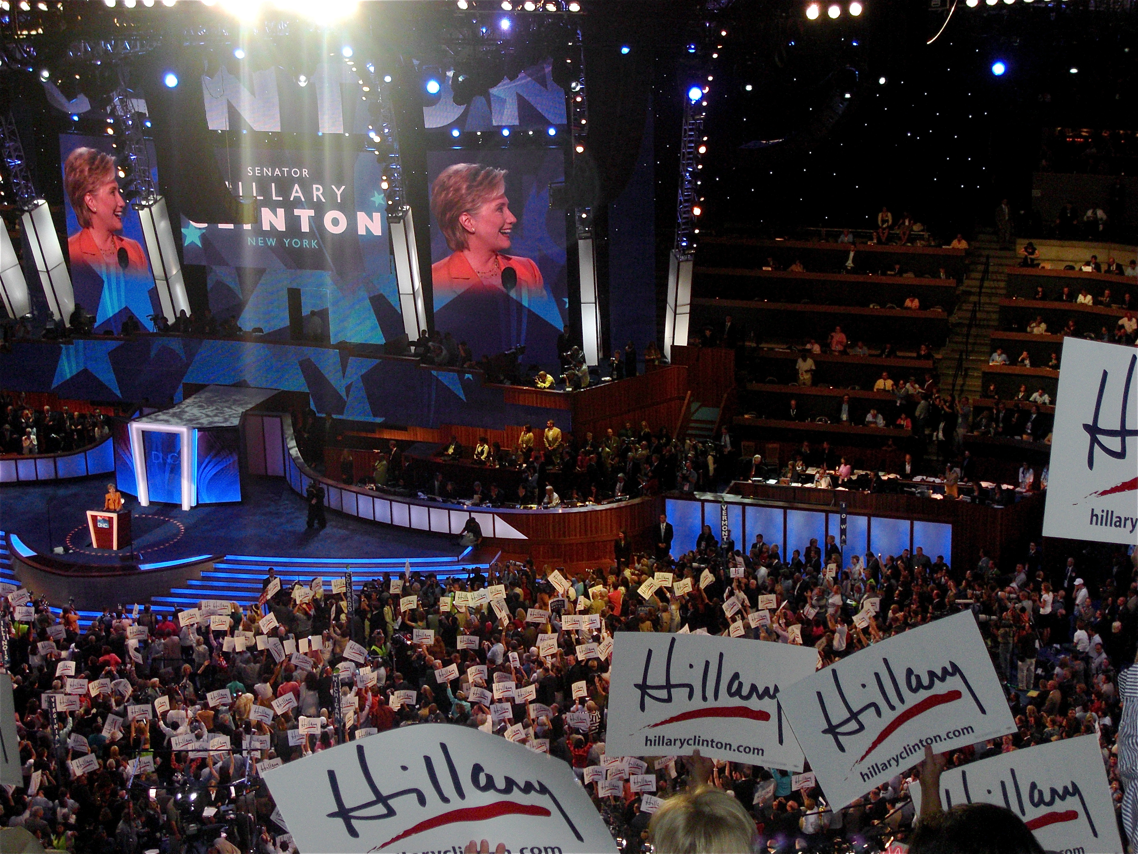 Hillary Rodham Clinton speaks during the second day of the 2008 Democratic National Convention in Denver, Colorado.